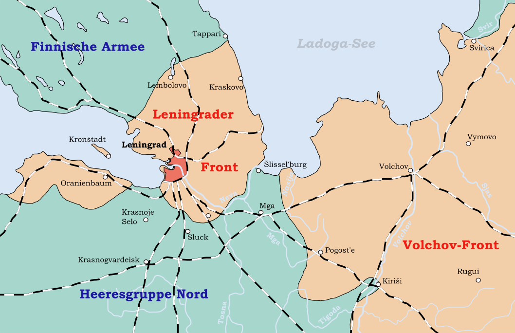 Map showing the situation on the Eastern Fronts northern part from May 1942 till January 1943.